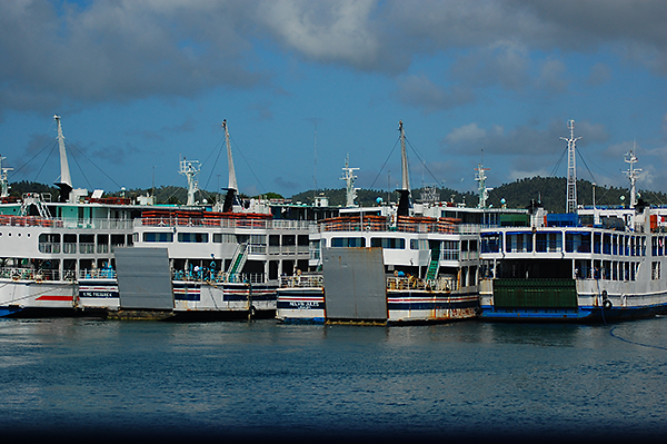 RORO Ferry Terminal (BALWARTECO) in Allen, Northern Samar